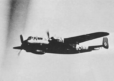 A German Dornier Do 217E-2 bomber in flight.